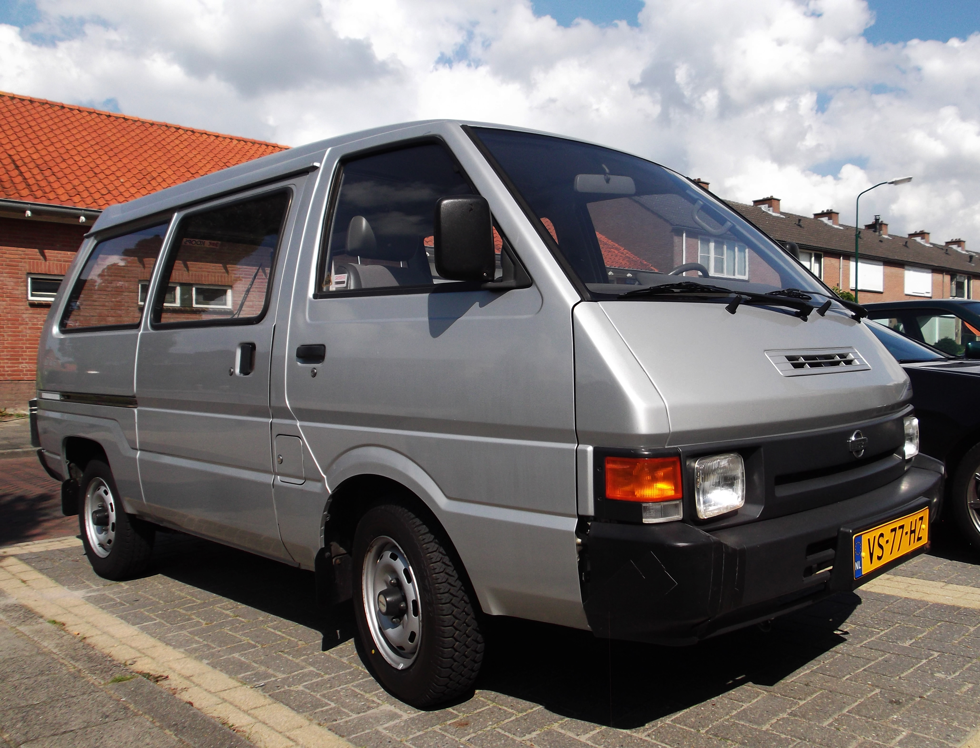 1992. First owner, this van definitely looks 'like new'!